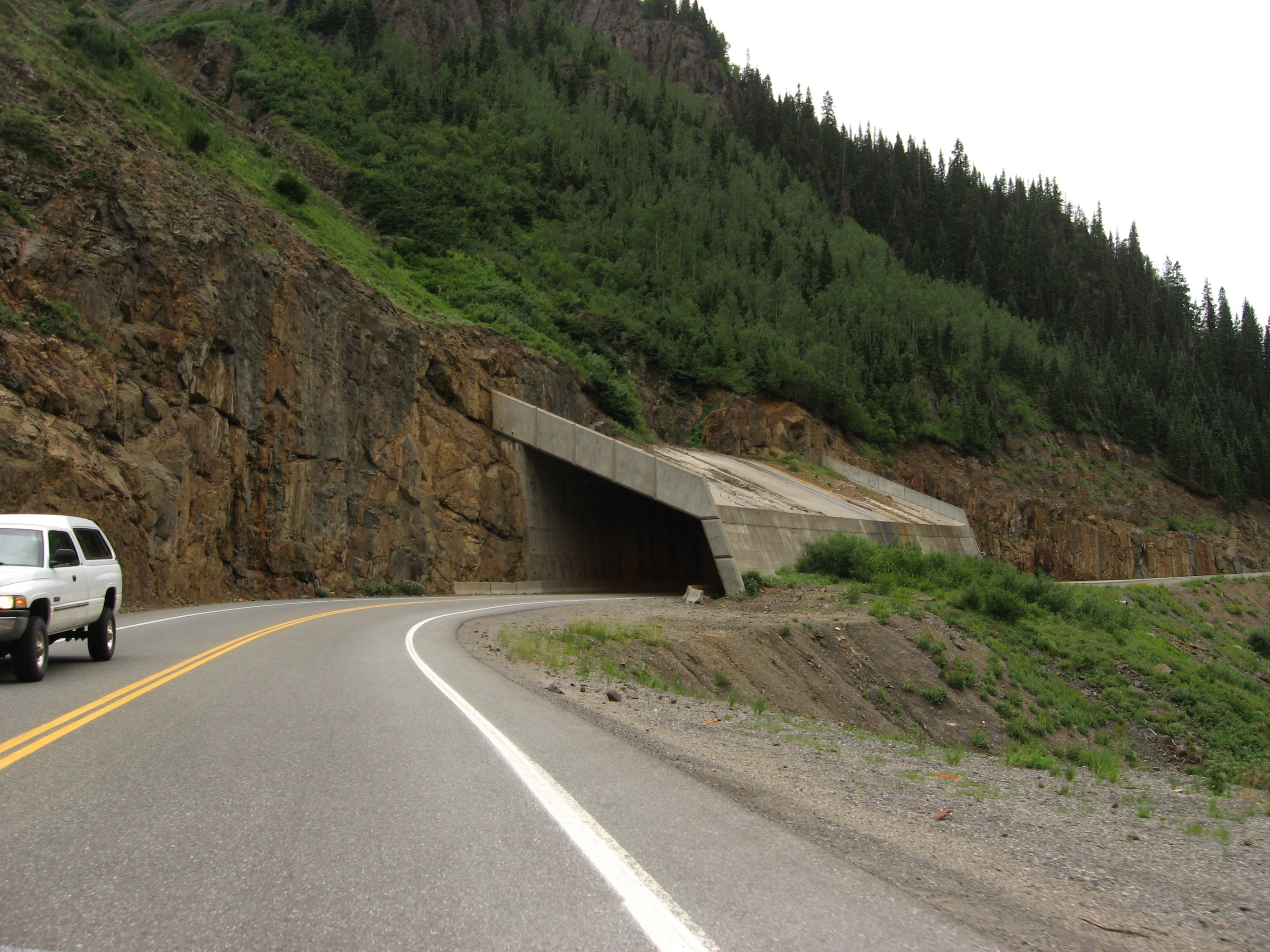 Avalanche chute "overpass", U.S. 550 Between Ouray and Silverton, Colorado (12)